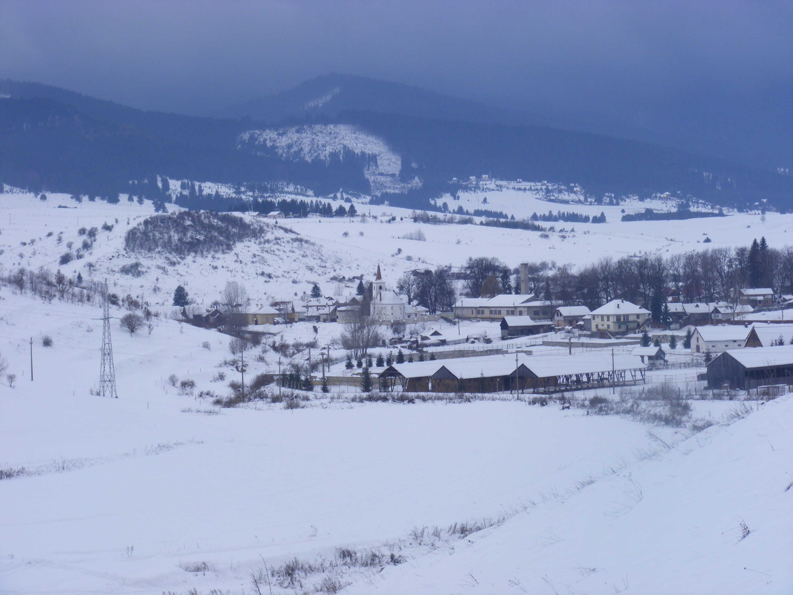 View of Jigodin (Csíkzsögöd) in winter time